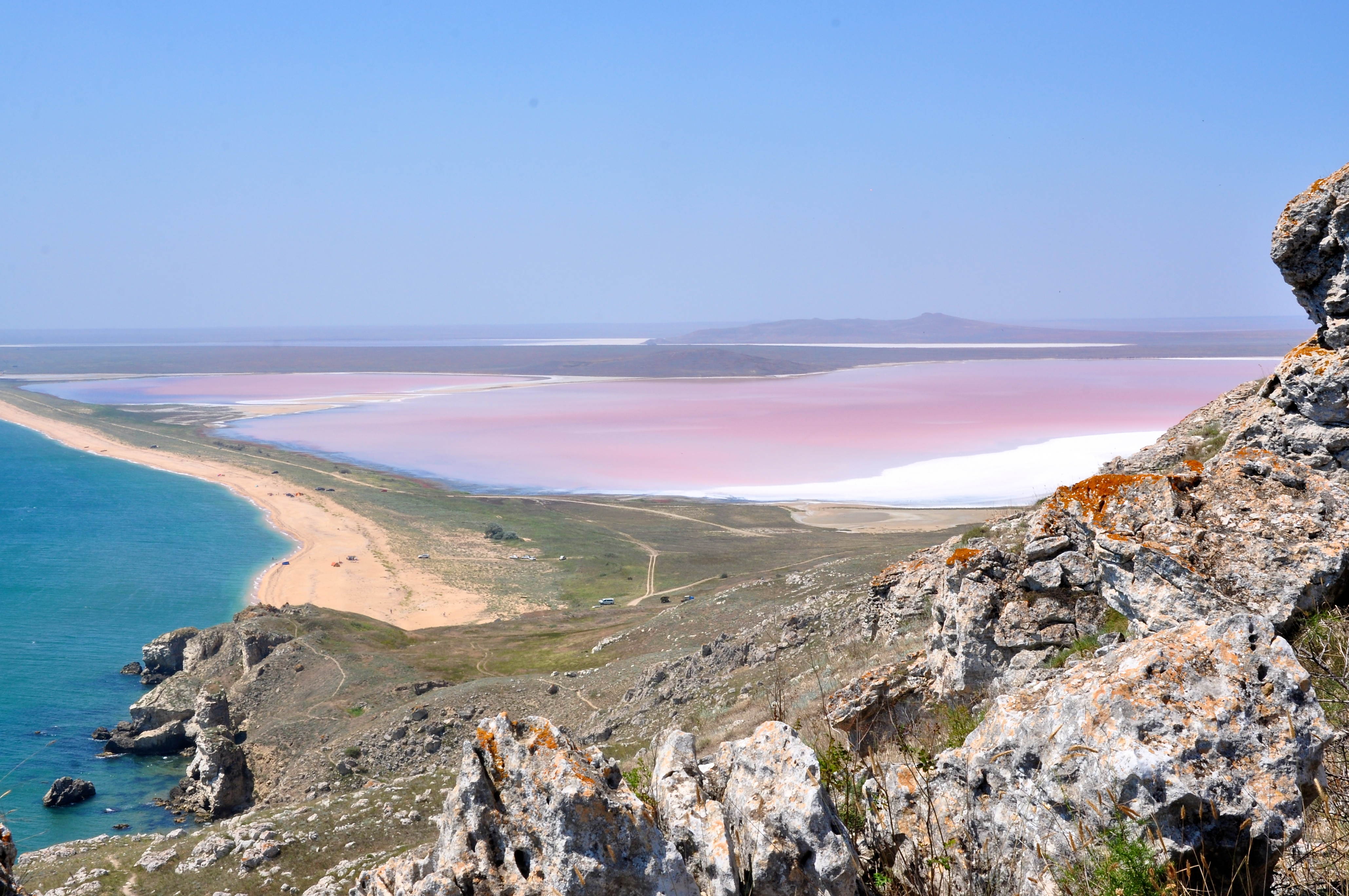 Opuk Natural Reserve.